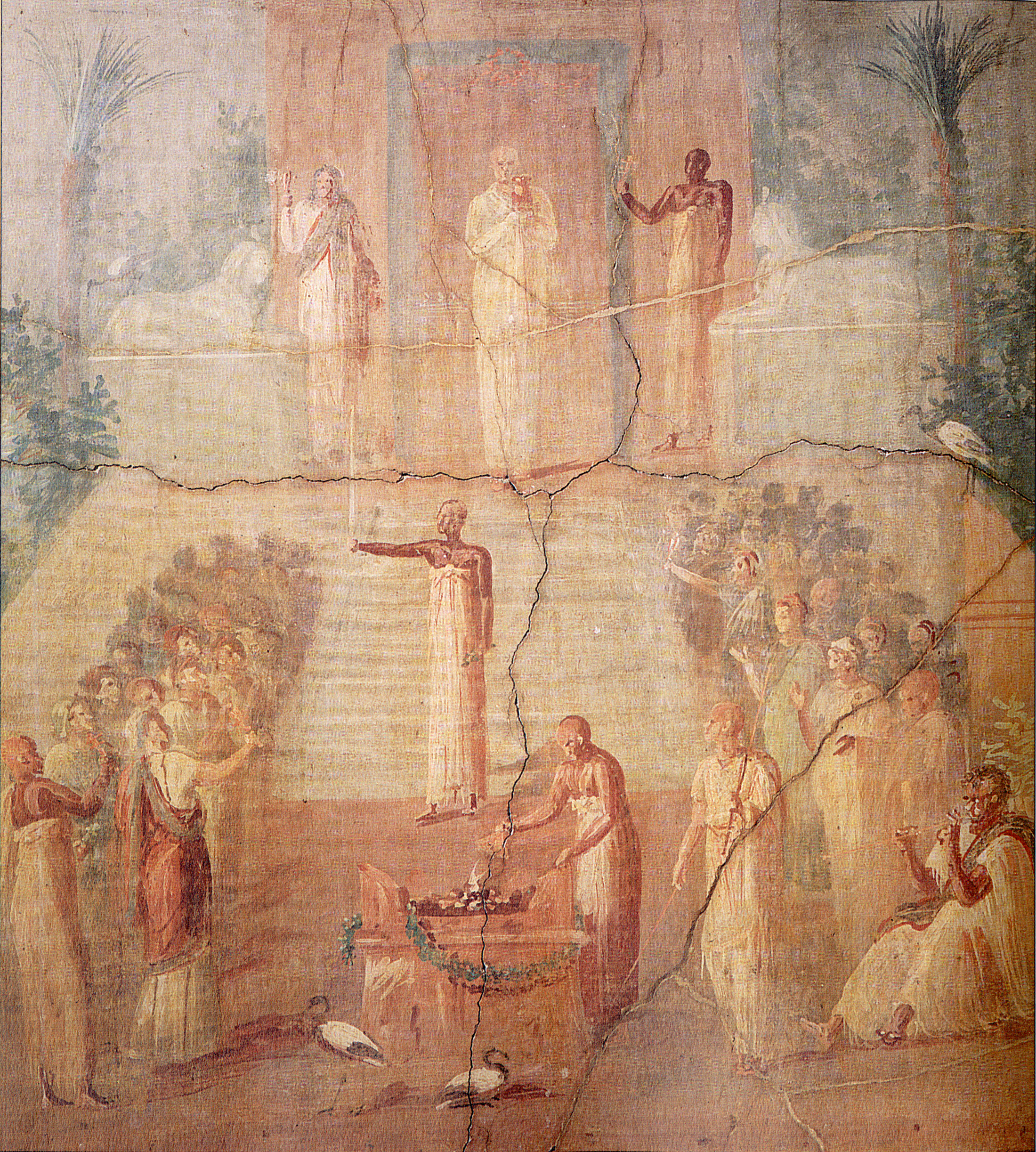 "White-robed priests of Isis perform a water ritual as chanting devotees line the steps of the goddess's temple in this wall painting from Herculaneum."